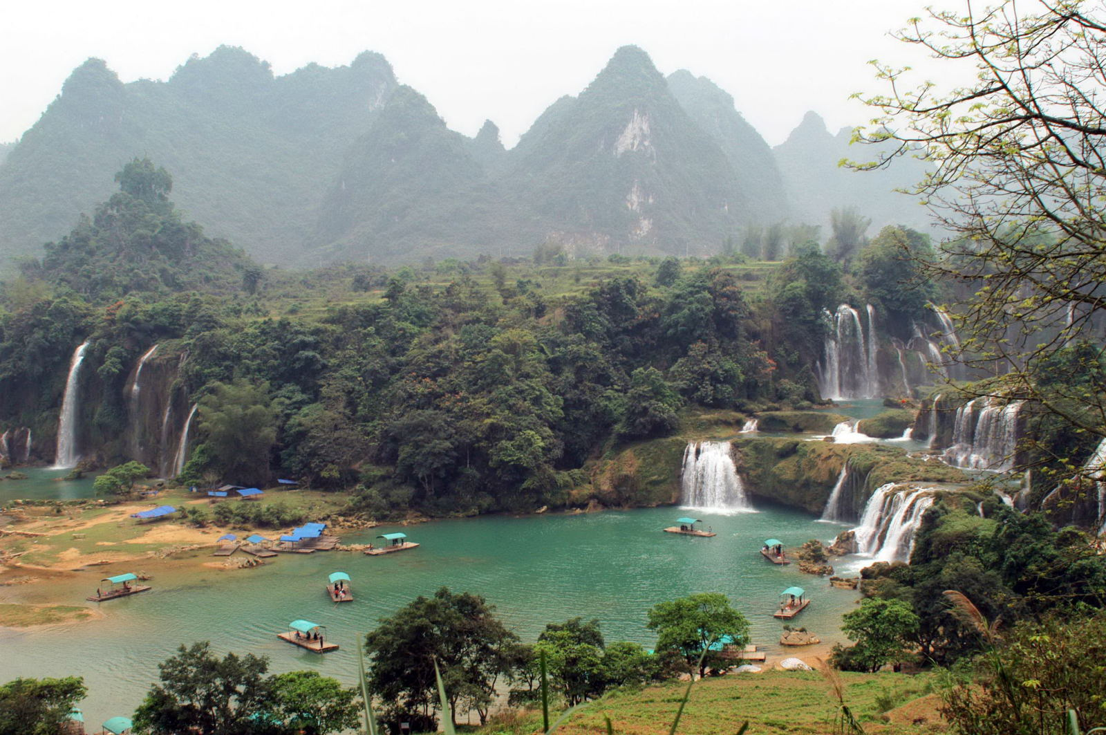 Ban Gioc Falls